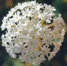 Abronia fragrans NPS photo